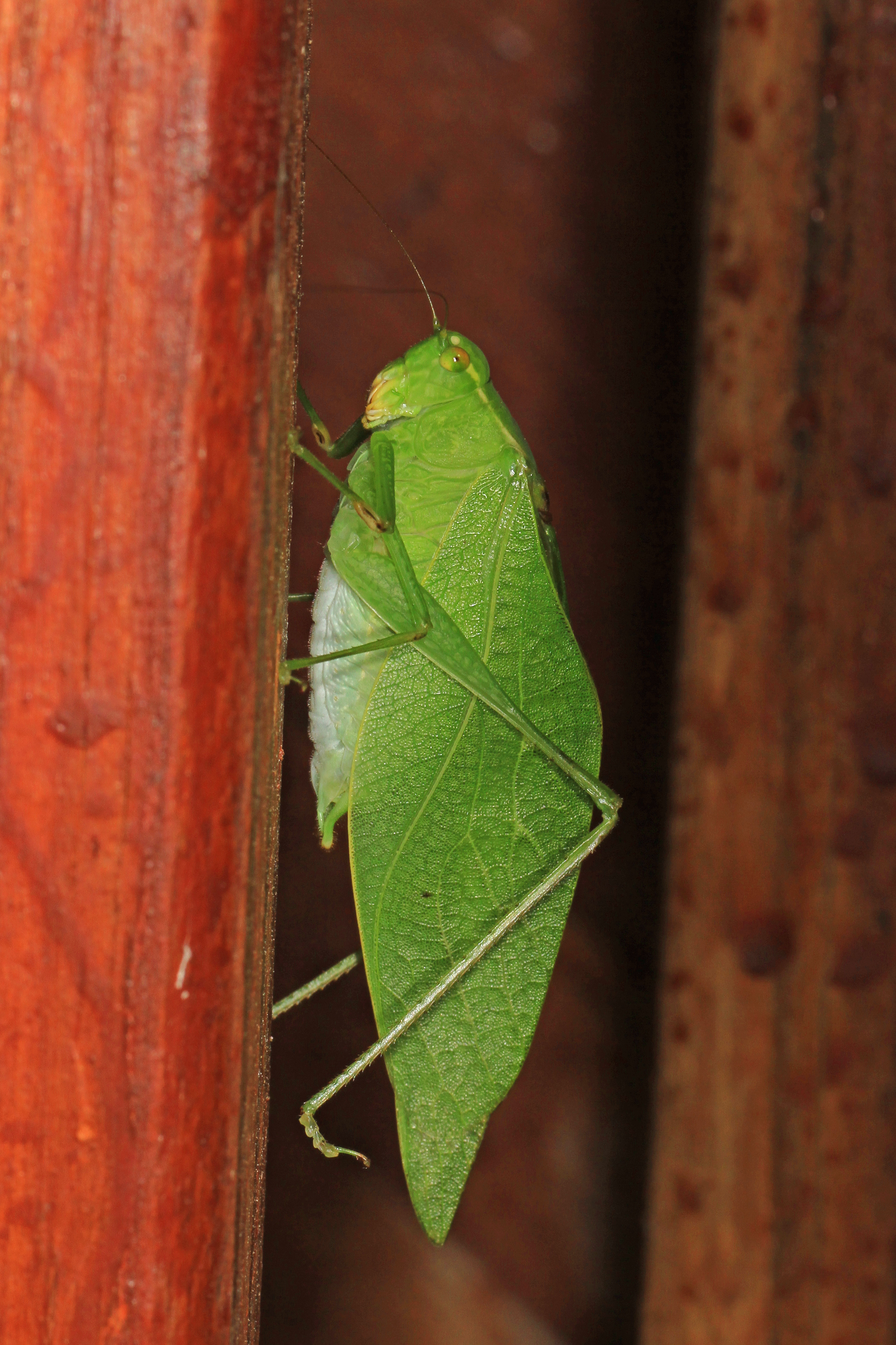 Lesser Angle-winged Katydid - Microcentrum retinerve, Woodbridge, Virginia.